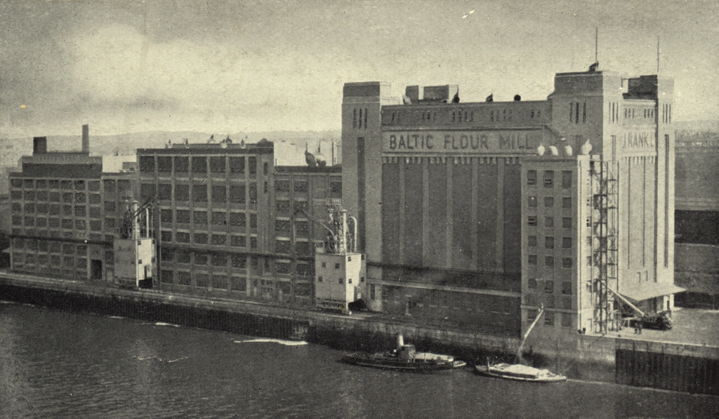 Type : Photograph Medium : Print-black-and-white Description : Photograph of the Baltic Flour Mill taken in 1950 showing the Mill surrounding buildings and boats on the Tyne.Industries Collection : Local Studies Source of Information : Photo courtesy of J. Rank - building at this time used by Rank Ltd Printed Copy : If you would like a printed copy of this image please contact Newcastle Libraries quoting Accession Number : 012298